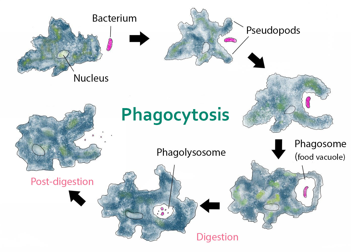 Diagram of amoeba engulfing a particle of food by phagocytosis.